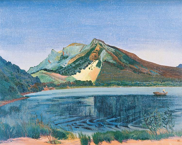 Oil painting by Japanese artist Kanae Yamamoto